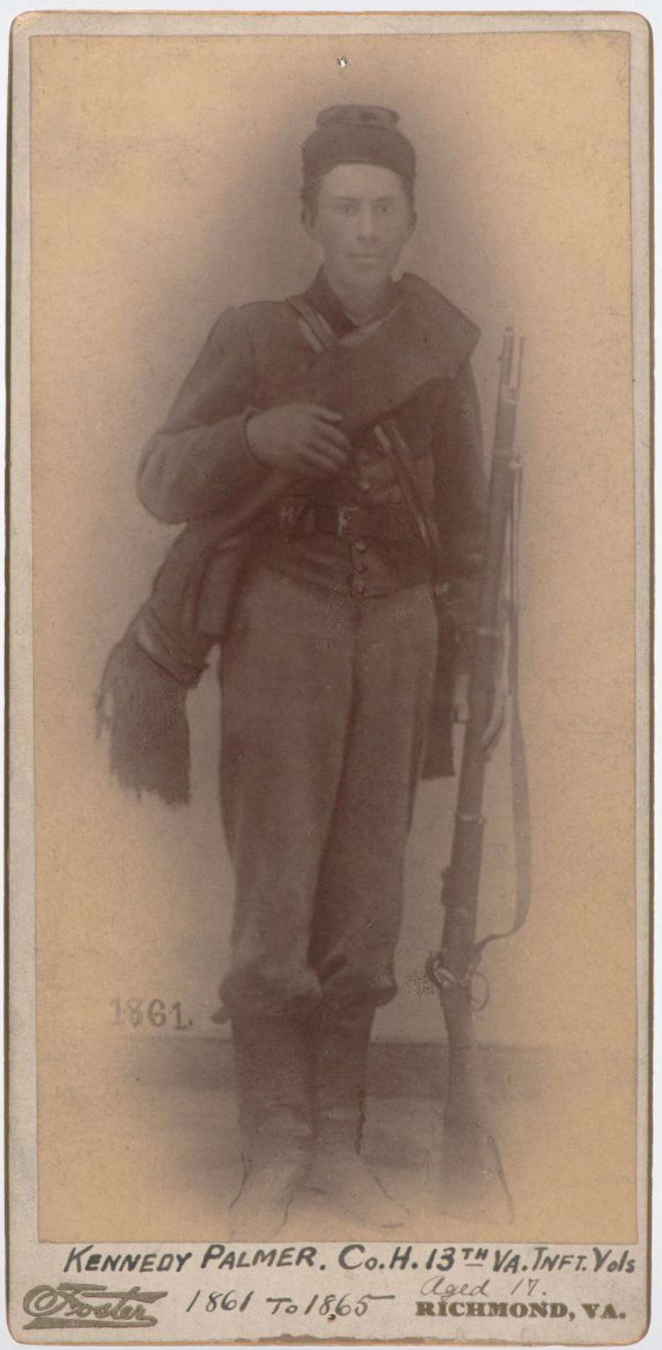 Cabinet Card of a full length portrait of Kennedy Palmer in uniform, wearing a large sash and holding a gun. Inscription on front: Kennedy Palmer. Co. H. 13th Va. Inft. Vols Aped 17. 1861 to 1865. Inscription on back: Taken from old picture taken in Winchester-1861. Enlisted April 19th 1861. Served until wounded. July-4-1864. In prison from May 6th to Aug. 6th, 1862, on Pea patch Island (Fort Delaware.) Severely wounded at the capture Harper's Ferry July 4th, 1864 - on crutches about three years. Enlisted in my 17th year. Kennedy Palmer, (son of John Jared Palmer) Richmond, Va April, 1893; Returned to Miss Baughman. From the Collections of the Confederate Memorial Literary Society managed by the Virginia Historical Society